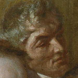 left to right:Samuel Bowly Here he is at the back of the British and Foreign Anti-Slavery Society in 1840. Note this is an extract from a much larger painting.